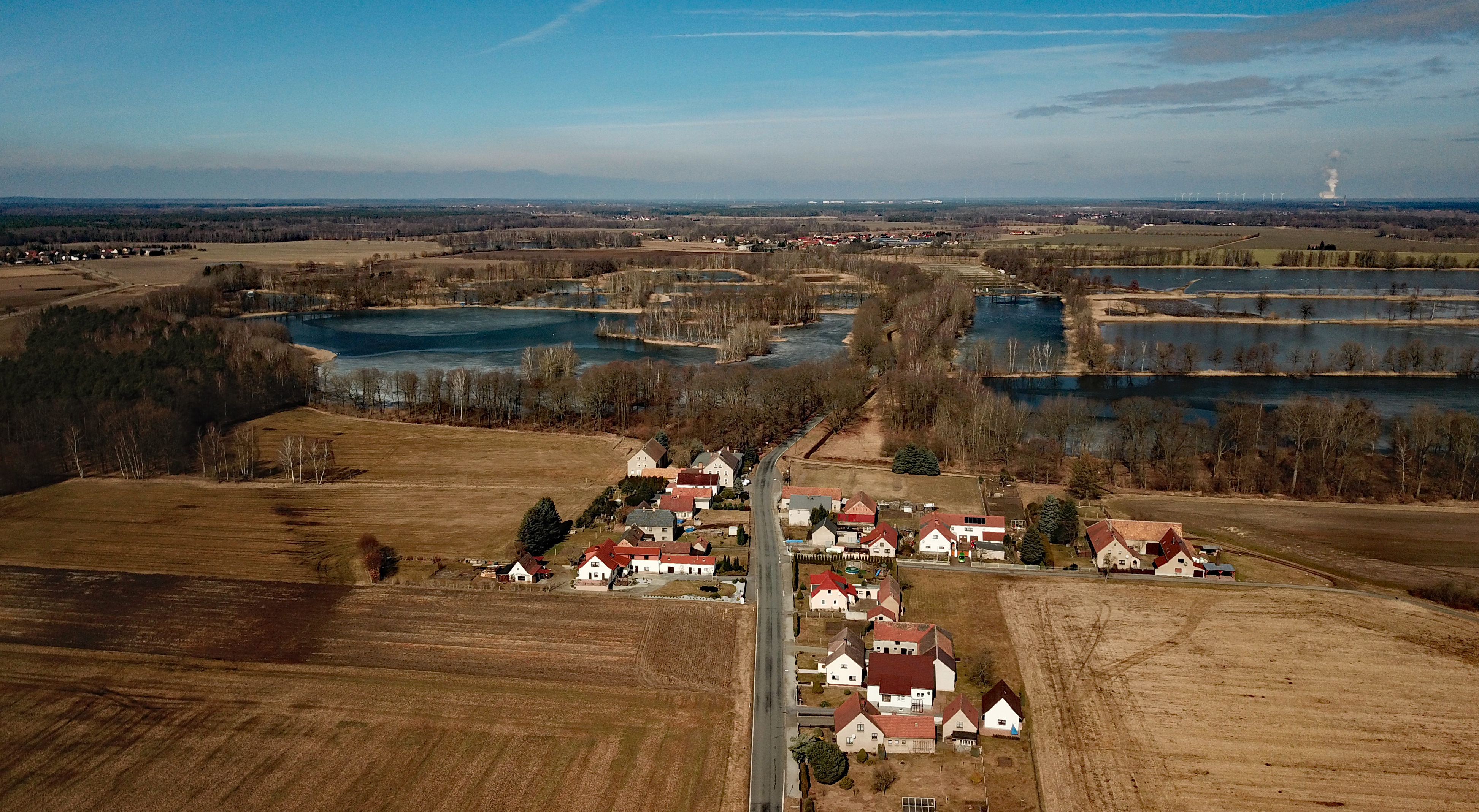 Entenschenke (Königswartha, Saxony, Germany) Hornjoserbsce: Powětrowy wobraz Kačeje Korčmy